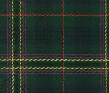 Kennedy Tartan